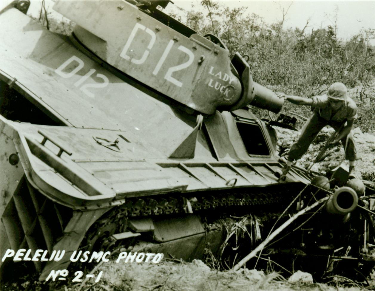 From the Frederick R. Findtner Collection (COLL/3890), Marine Corps Archives & Special Collections OFFICIAL USMC PHOTOGRAPH